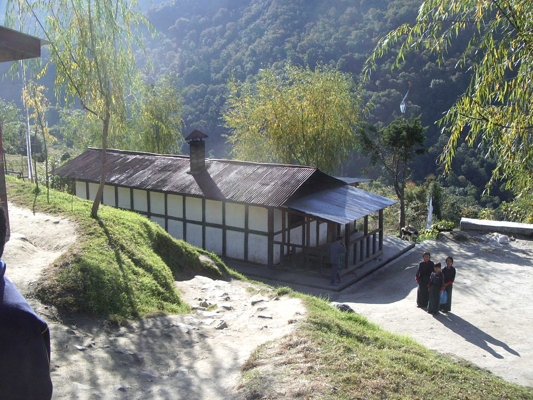 Thinleygang Primary School, Bhutan 2005.